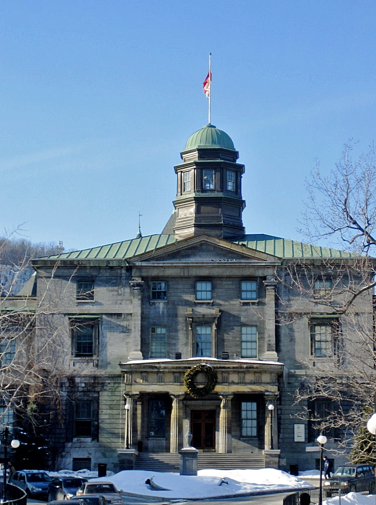 Closeup on the main entrance of the Arts building of McGill University, Montréal. January 2006.